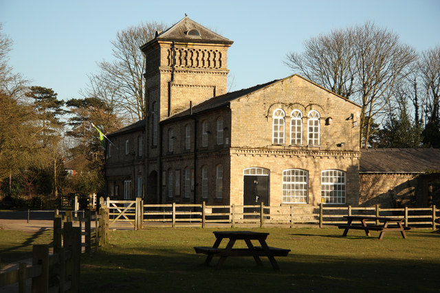 Hartsholme Country Park